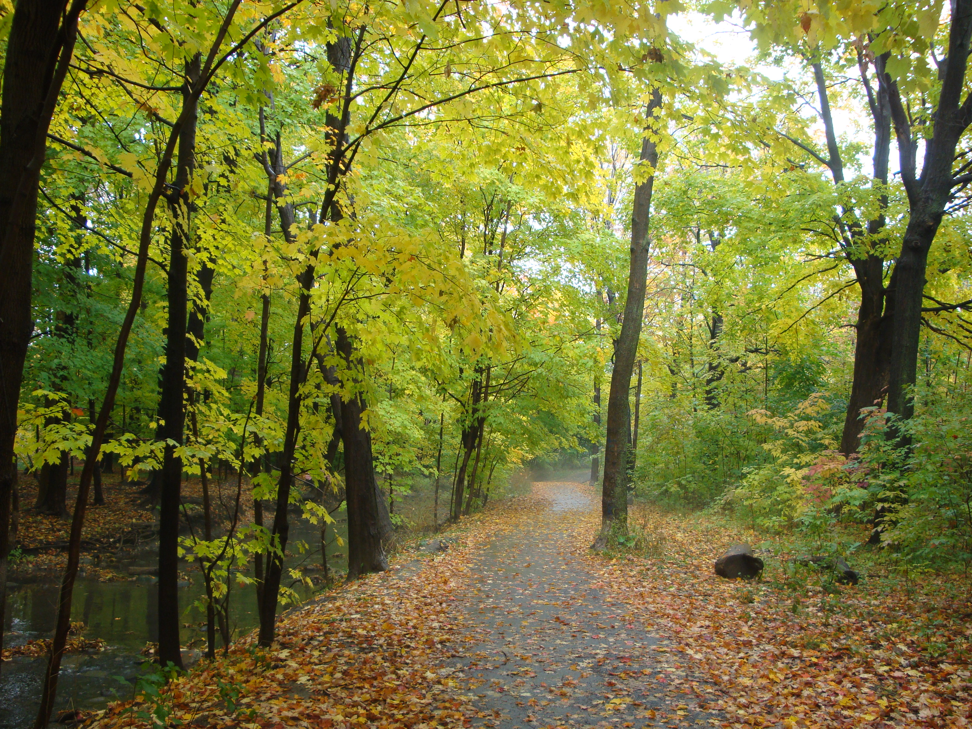 Bloordale Park in the Markland Wood area of Toronto